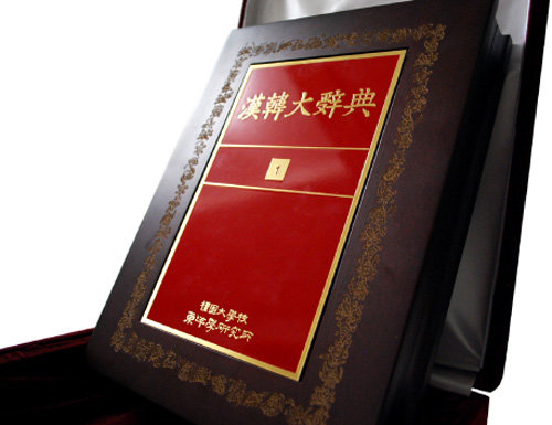 The lagest dictionary as Chinese & Korean, Published : Dankook University